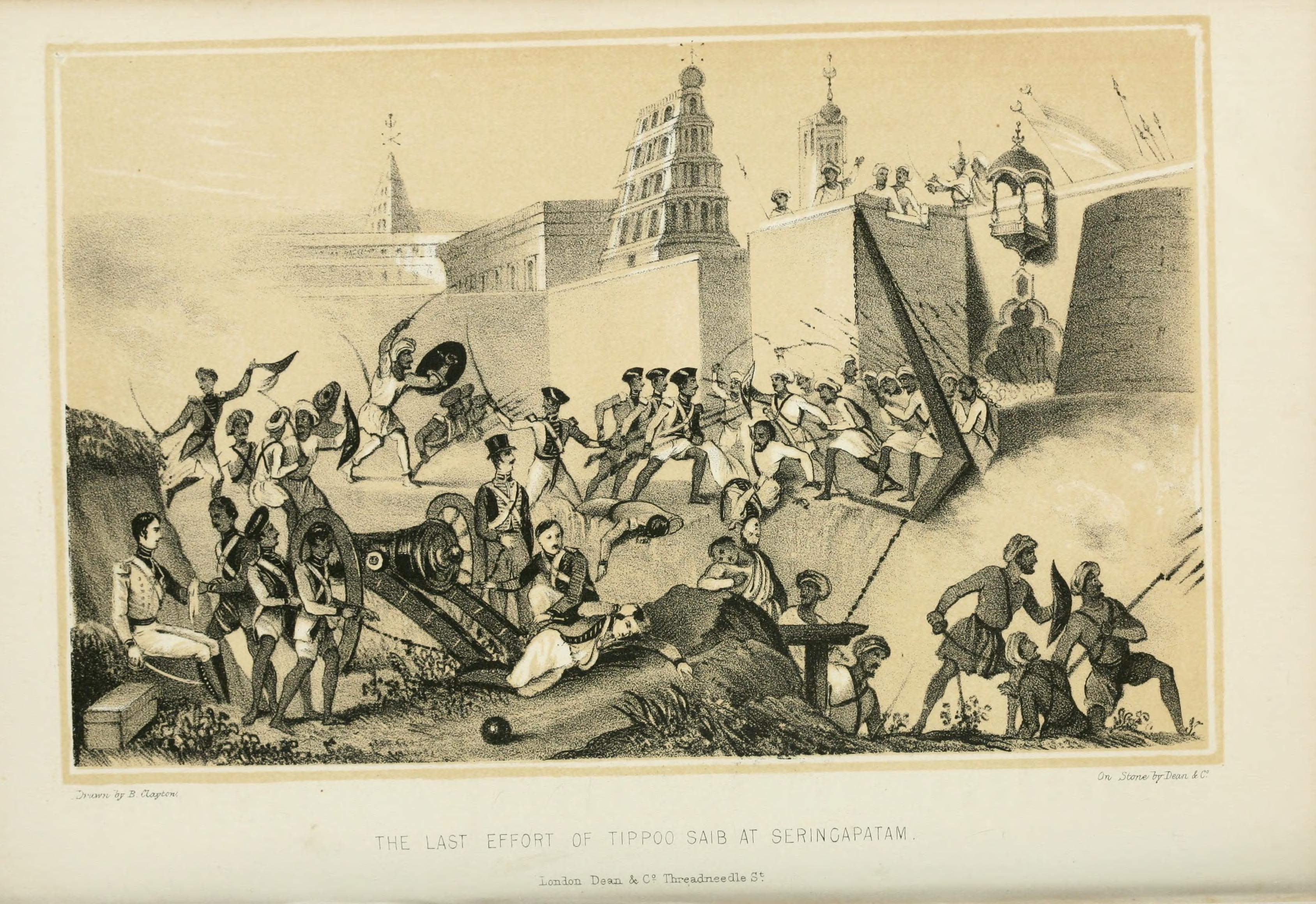 The Last Effort of Tippu Sahib at Seringapatam (Corner, 1840, p.334)